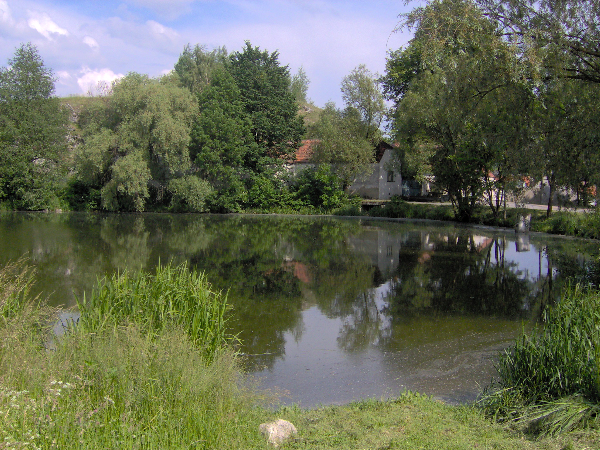 Pond in Krty-Hradec, Strakonice District, Czech republic